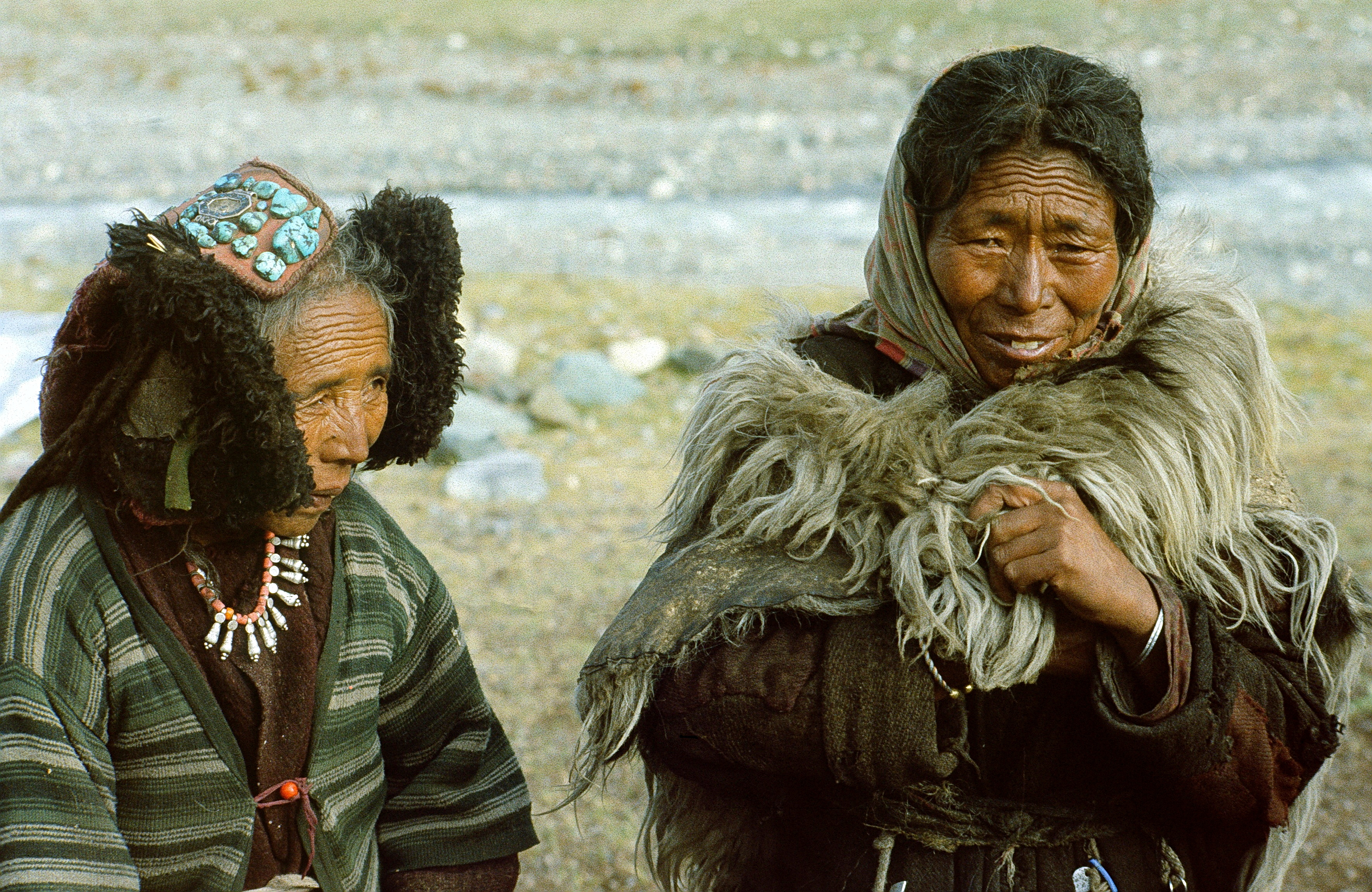 Laddakies/Zankaries women